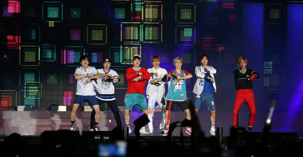 2015 Summer K-POP Festival August 4, 2015 Seoul Plaza Ministry of Culture, Sports and Tourism Korean Culture and Information Service ( Official Photographer : Jeon Han